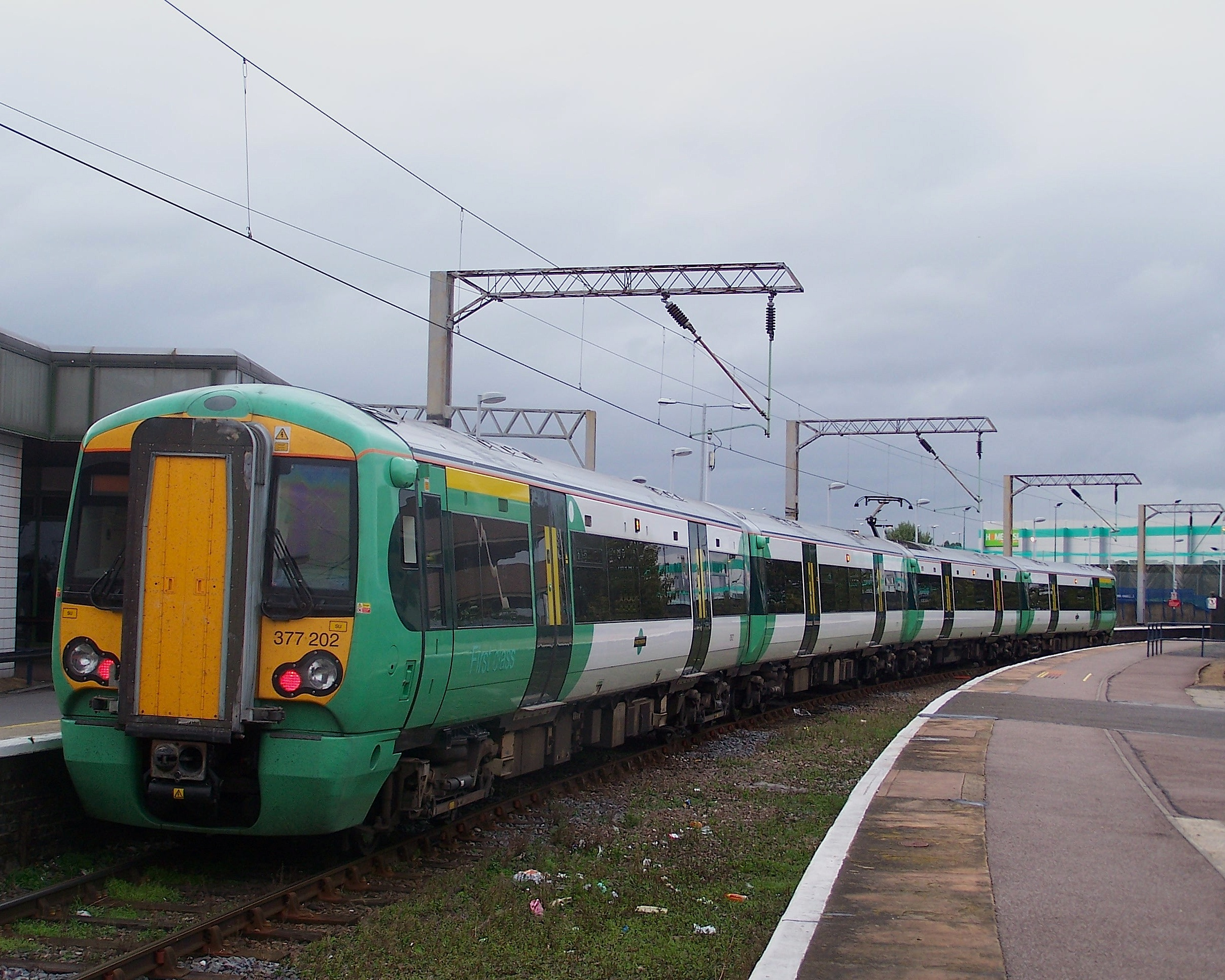 Southern liveried Bombardier Class 377/2 Electrostar No. 377202 at Watford Junction, with a service bound for East Croydon, Gatwick Airport and Brighton